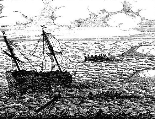 This is an image of Plate 1 from the 1647 Dutch book Ongeluckige voyagie, van't schip Batavia ("Unlucky voyage of the ship Batavia"). In the original work this plate followed Page 2.